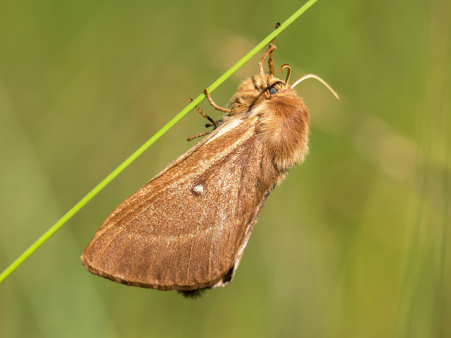 A female Grass Eggar (moth), Lasiocampa trifolii, resting in a heath/grass area in northern Germany.